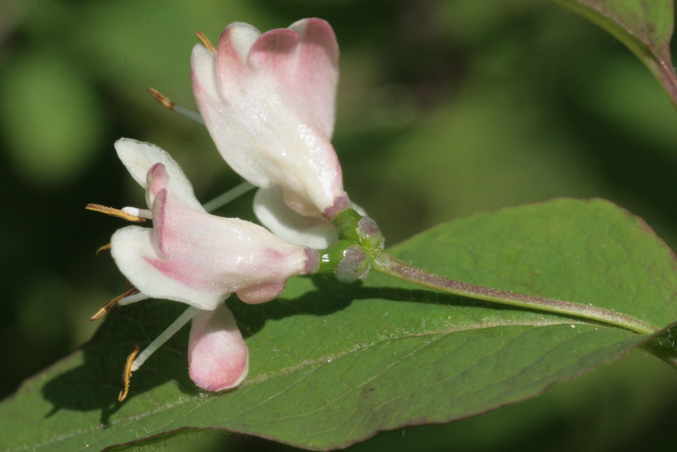 Lonicera nigra